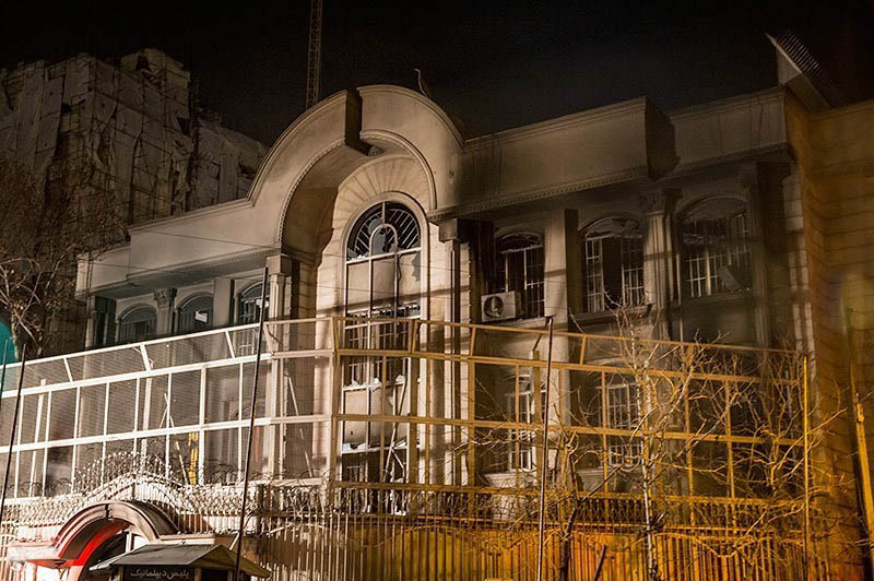 Devastated embassy of the Kingdom of Saudi Arabia in Tehran by protests.